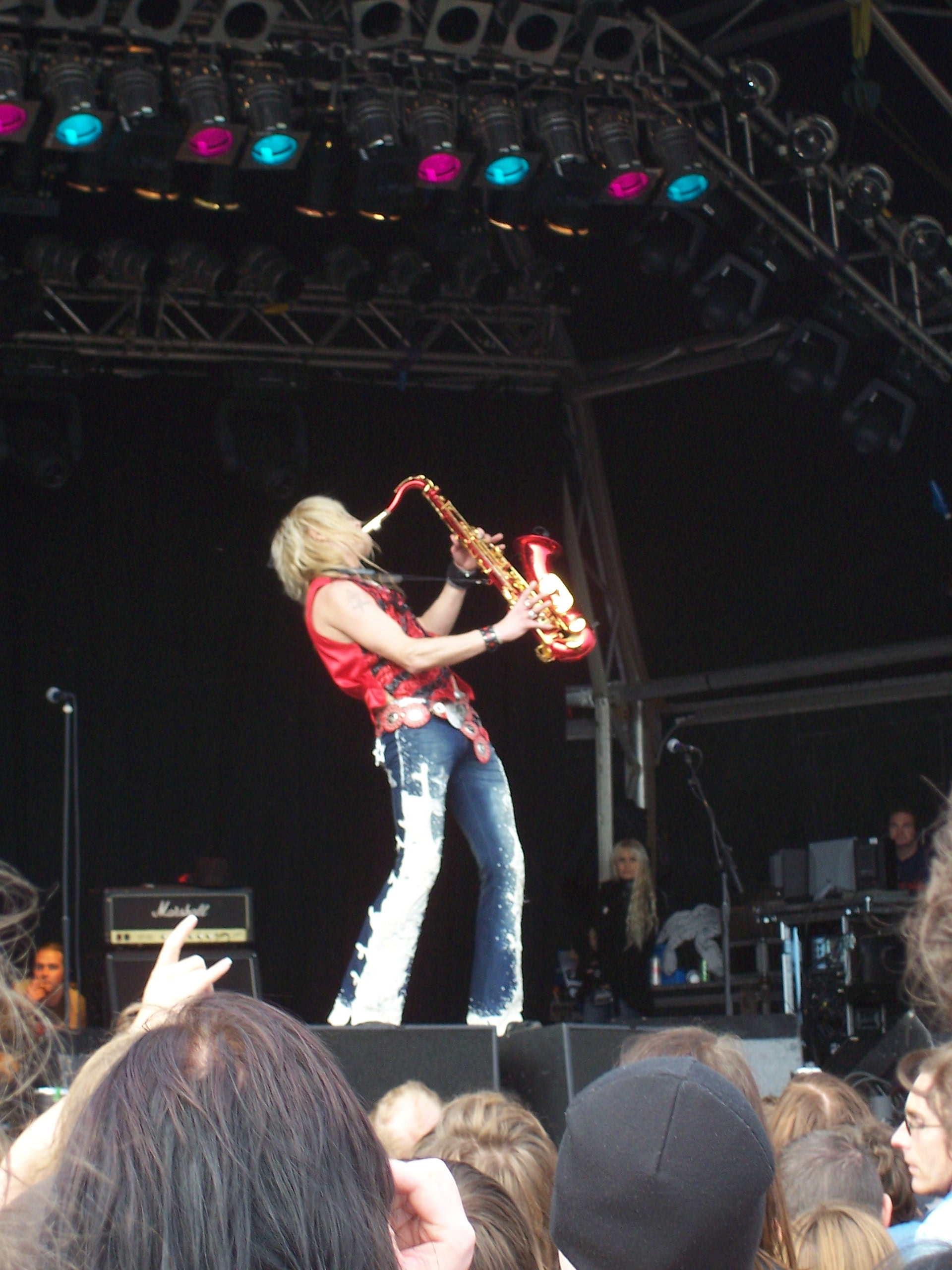 Michael Monroe of Hanoi Rocks, playing the saxophone on stage at the Scarborough Rock in the Castle festival.